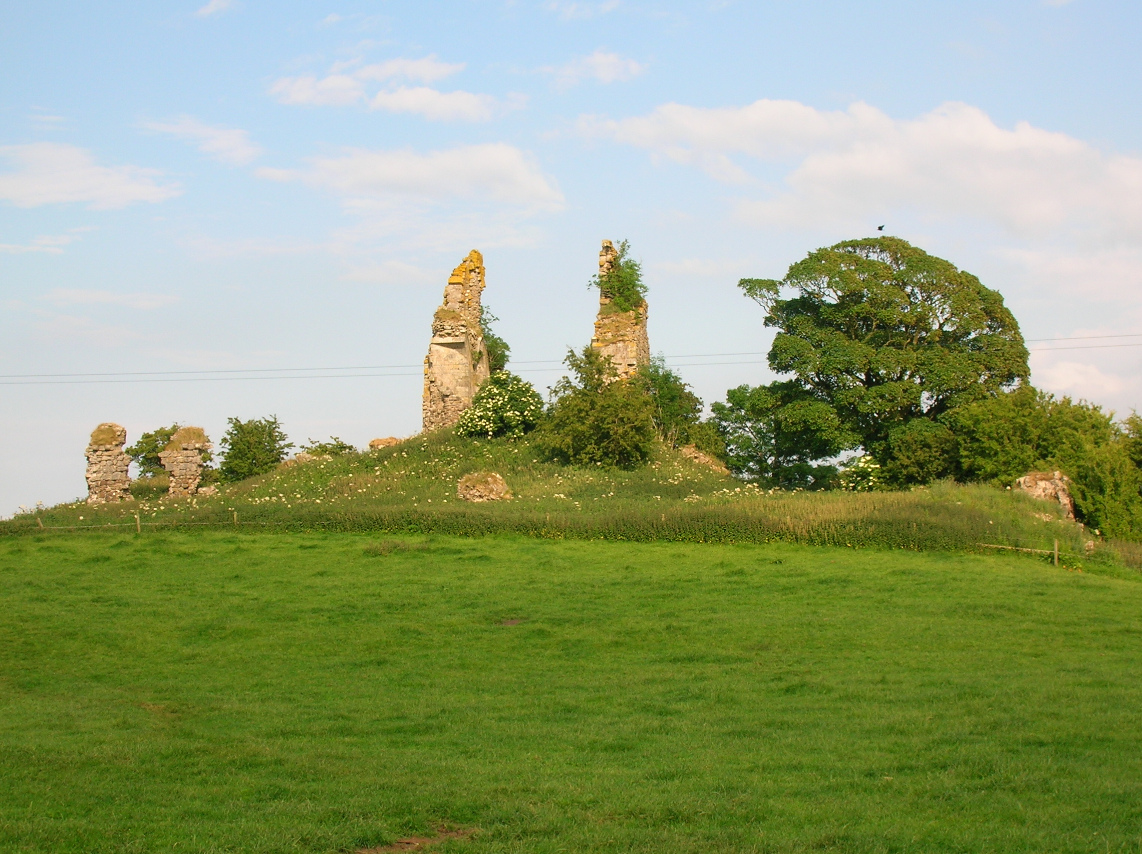 Craigie Castle from Craigie Farm, Riccarton, East Ayrshire, Scotland.